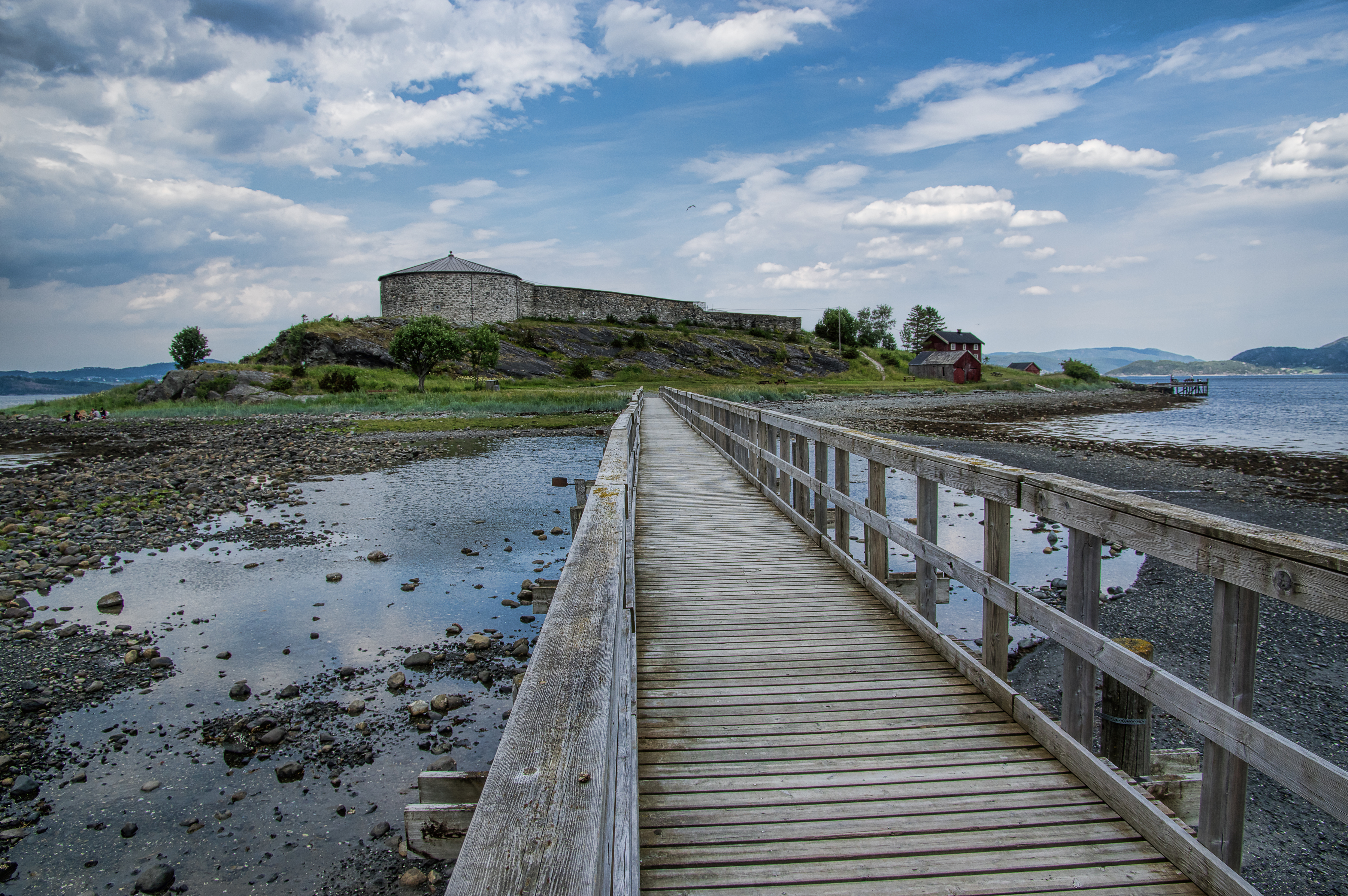 Bridge to Steinvikholm Castle at the Skatval peninsula near Stjørdal, Norway